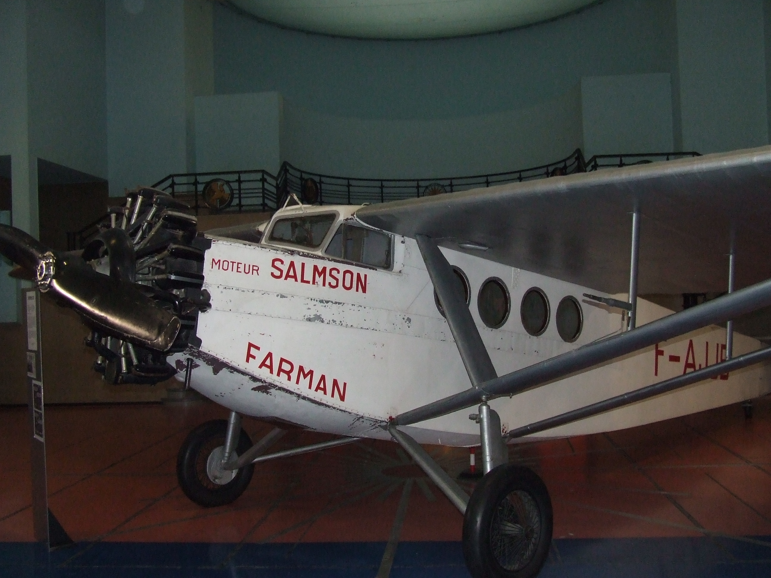 Former french airliner, seen here in 2010.